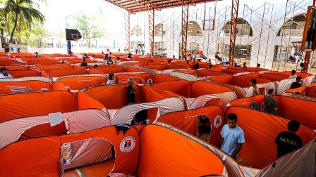 Modular tents set up by Manila City Government at the Delpan Covered Court as temporary shelters for street dwellers during the Luzon enhanced community quarantine.